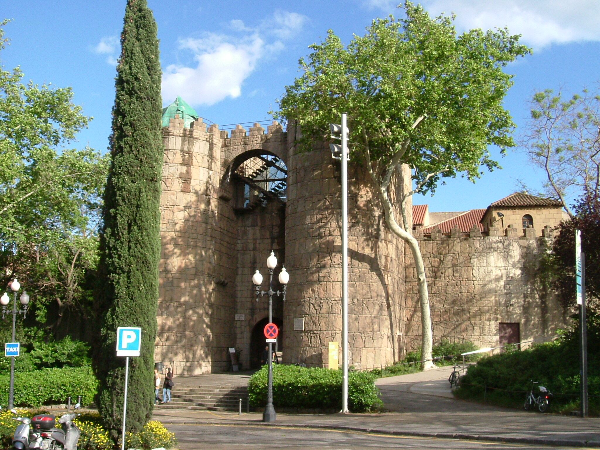 Entrance to the Poble Espanyol, Barcelona, Spain